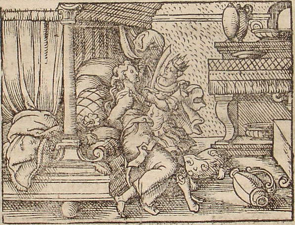 Rape of Philomela by Tereus. Engraving by Virgil Solis for Ovid's Metamorphoses Book VI, 519-562. Fol. 80 r, image 6.